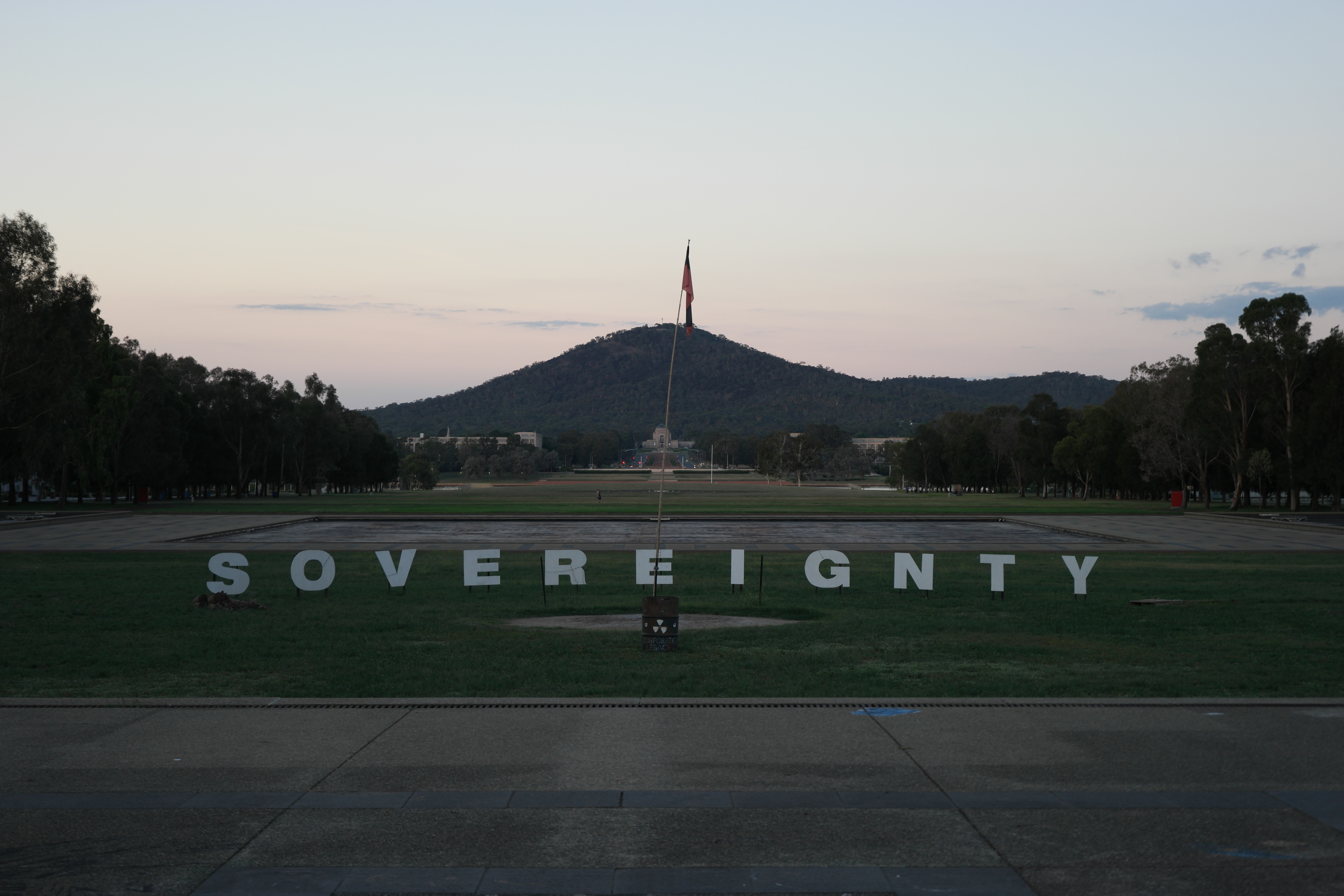 Sovereignty sign at the Aboriginal Tent Embassy, Canberra, Australia.